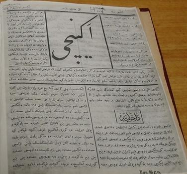 First page of Ekinchi newspaper (azerbaijani language, 1875)